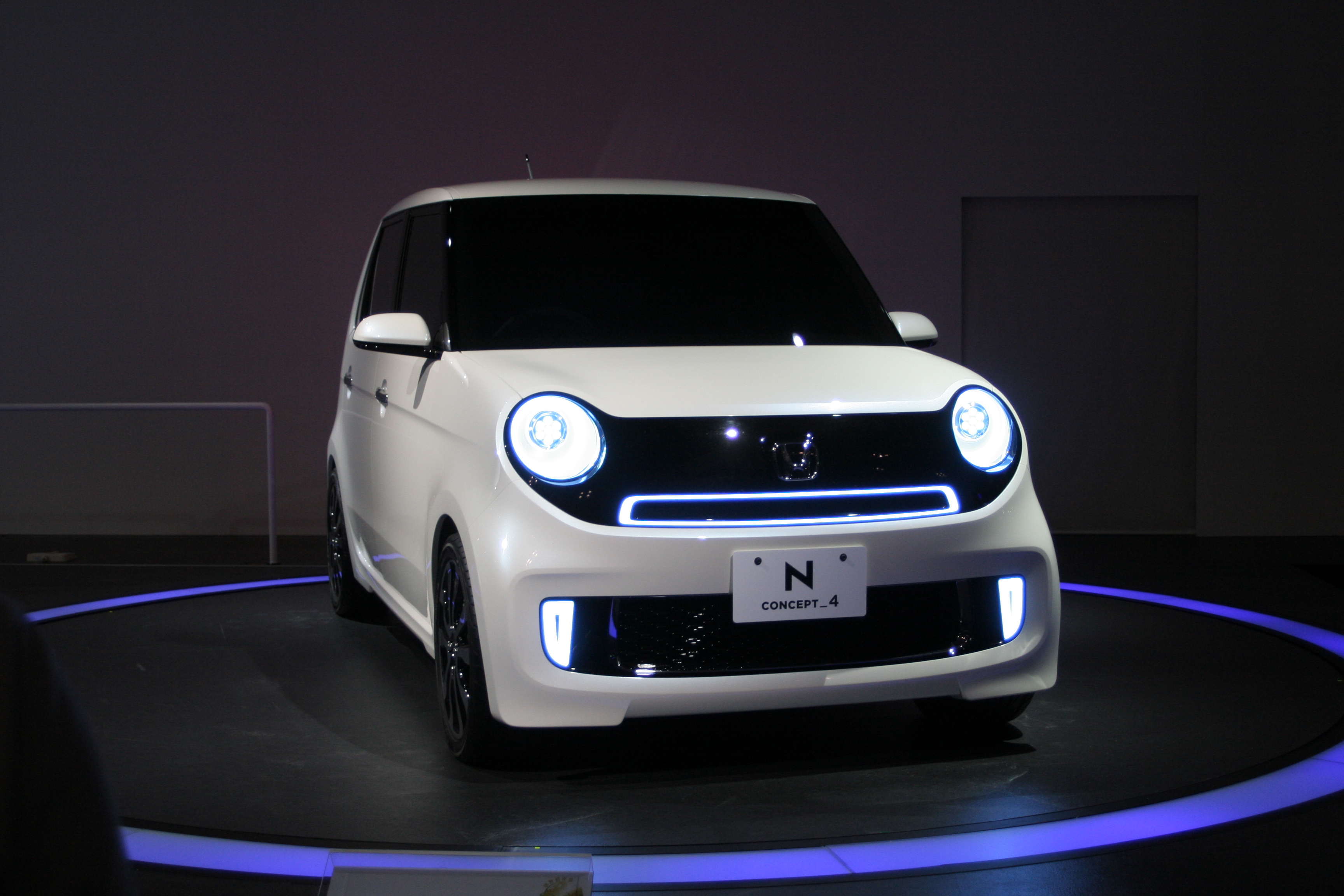 Honda N Concept 4 In Tokyo Motor Show 2011.